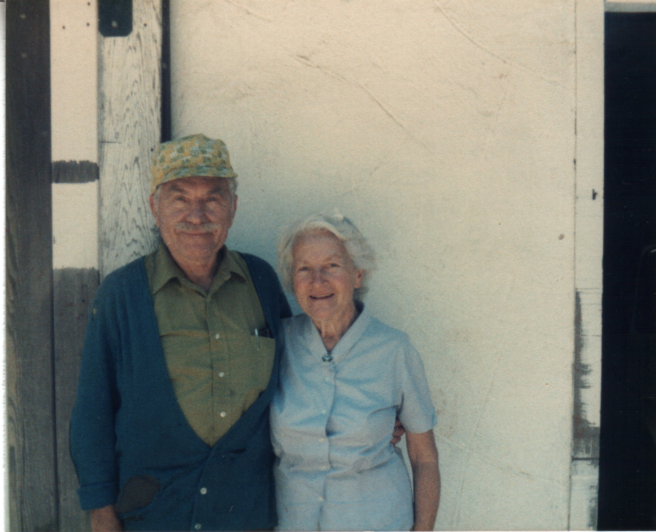 Lucienne Bloch and Stephen Pope Dimitroff on a visit from Alexander Kaloian, Gualala, California (1985)